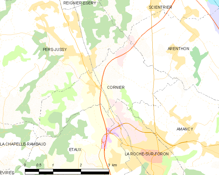 Map of French municipality Cornier